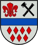 Coat of arms of Eppenberg